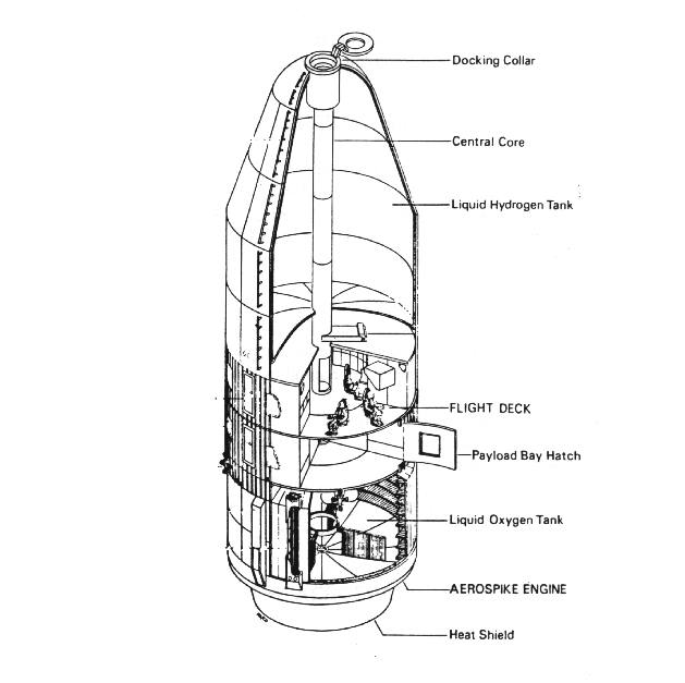 disegno esplicativo del progetto di ssto Phoenix